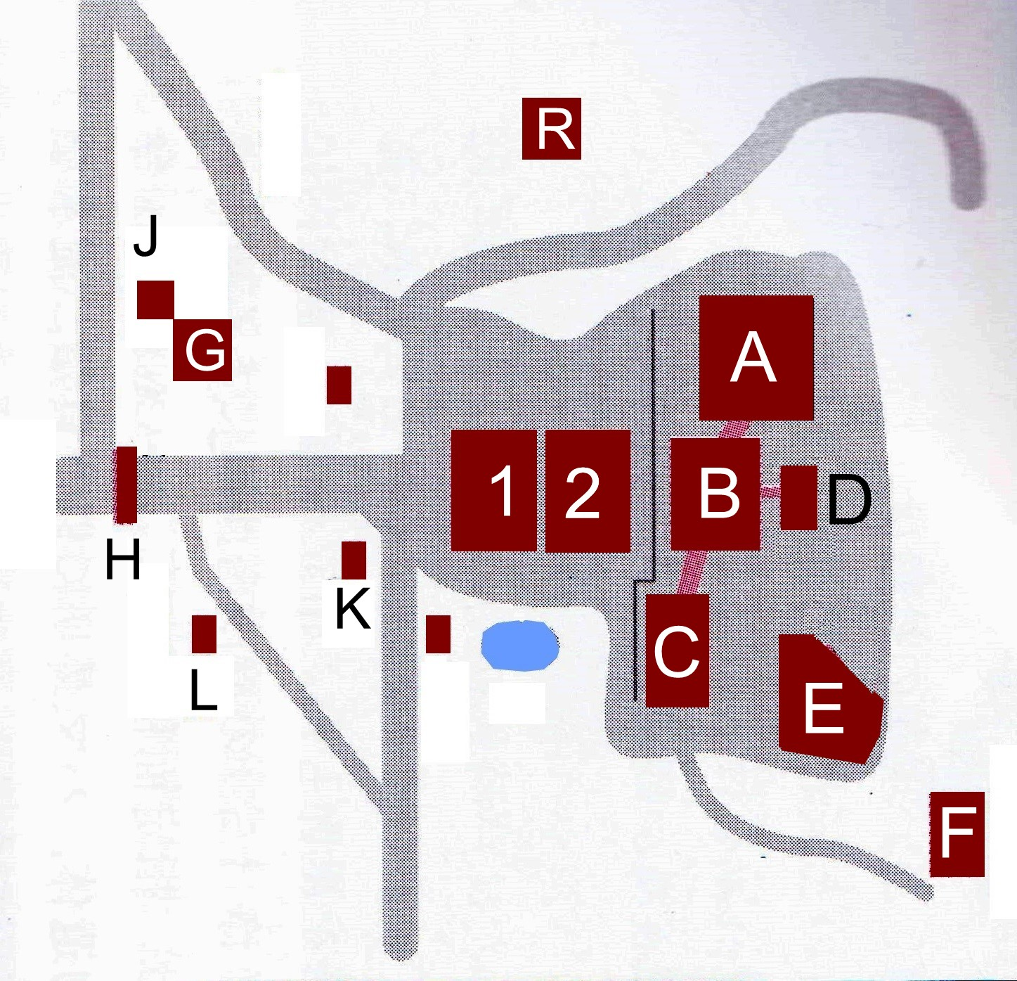 Layout of Sennyu-ji temple